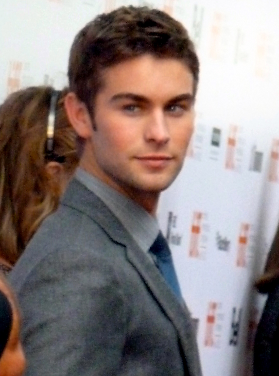 Chace Crawford at the Toronto International Film Festival 2011.